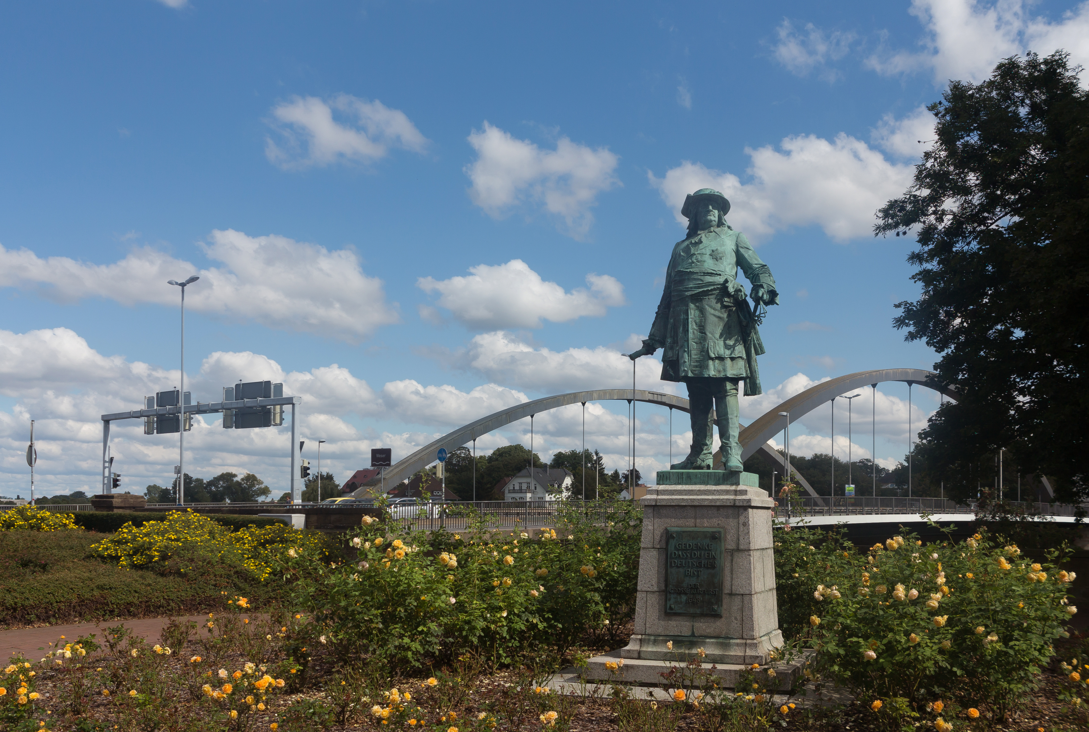 Minden, Denkmal des Grossen KurfürstThis is a photograph of an architectural monument.